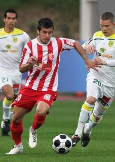 Rafael Yiangoudakis (Cypriot association football player) as Nea Salamis Famagusta FC's player against AEK Larnaca